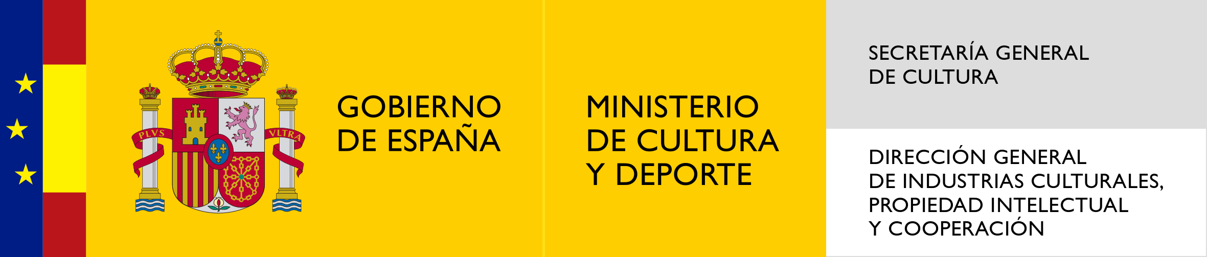 Logo of the Directorate-General for Cultural Industries, Intelectual Property and Cooperation of Spain